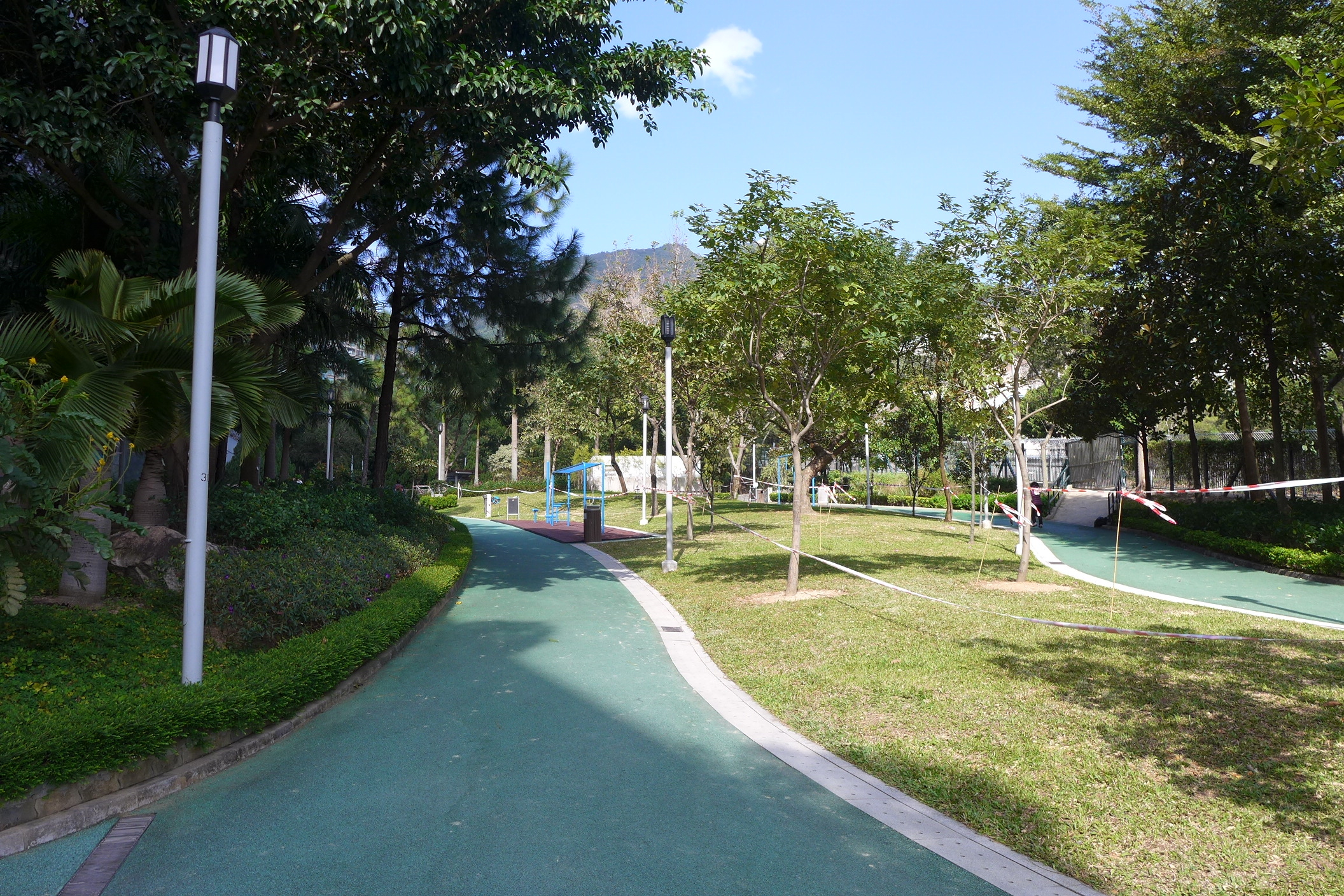 Cornwall Street Park Jogging Path